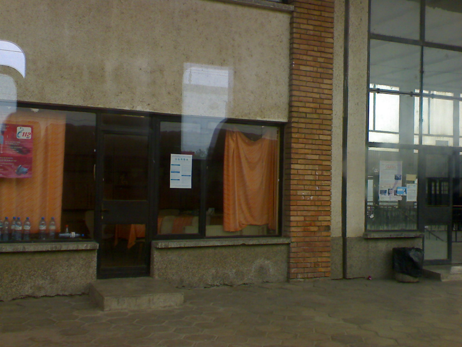 Popovo train station